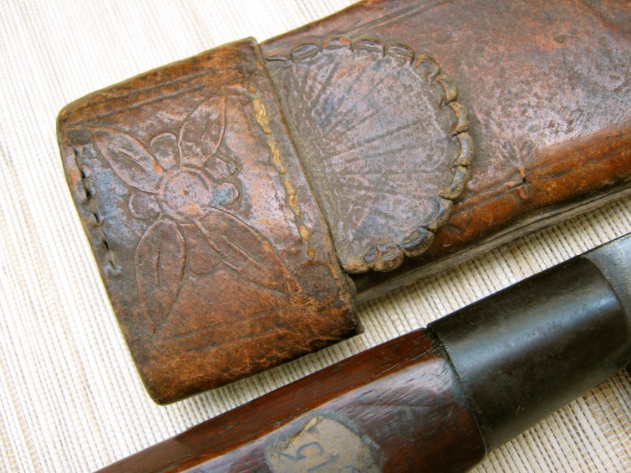 This antique Filipino sword is believed to have originated from Luzon, as evidenced by its leather scabbard and peened tang. The photo of the entire bolo is here. The hardwood hilt is octagonal, and the ferrule is circular and is made of iron. The tooled leather scabbard has shrunk and deteriorated with age. The small size of the sword makes it easy to conceal. In the attempted assassination of Imelda Marcos in 1972, the attacker used this type of bolo. Overall length: 415 mm (16.3 inches); Blade length: 275 mm (10.8 inches); Maximum blade thickness: 6 mm (1/4 inch); Scabbard length.: 273 mm (10.7 inches) Other uploaded materials by the same author on this same bolo plus many others can be found here: (a) Luzon weapons; (b) Visayan weapons; (c) Moro weapons; and (d) Lumad (non-Moro Mindanao) weapons